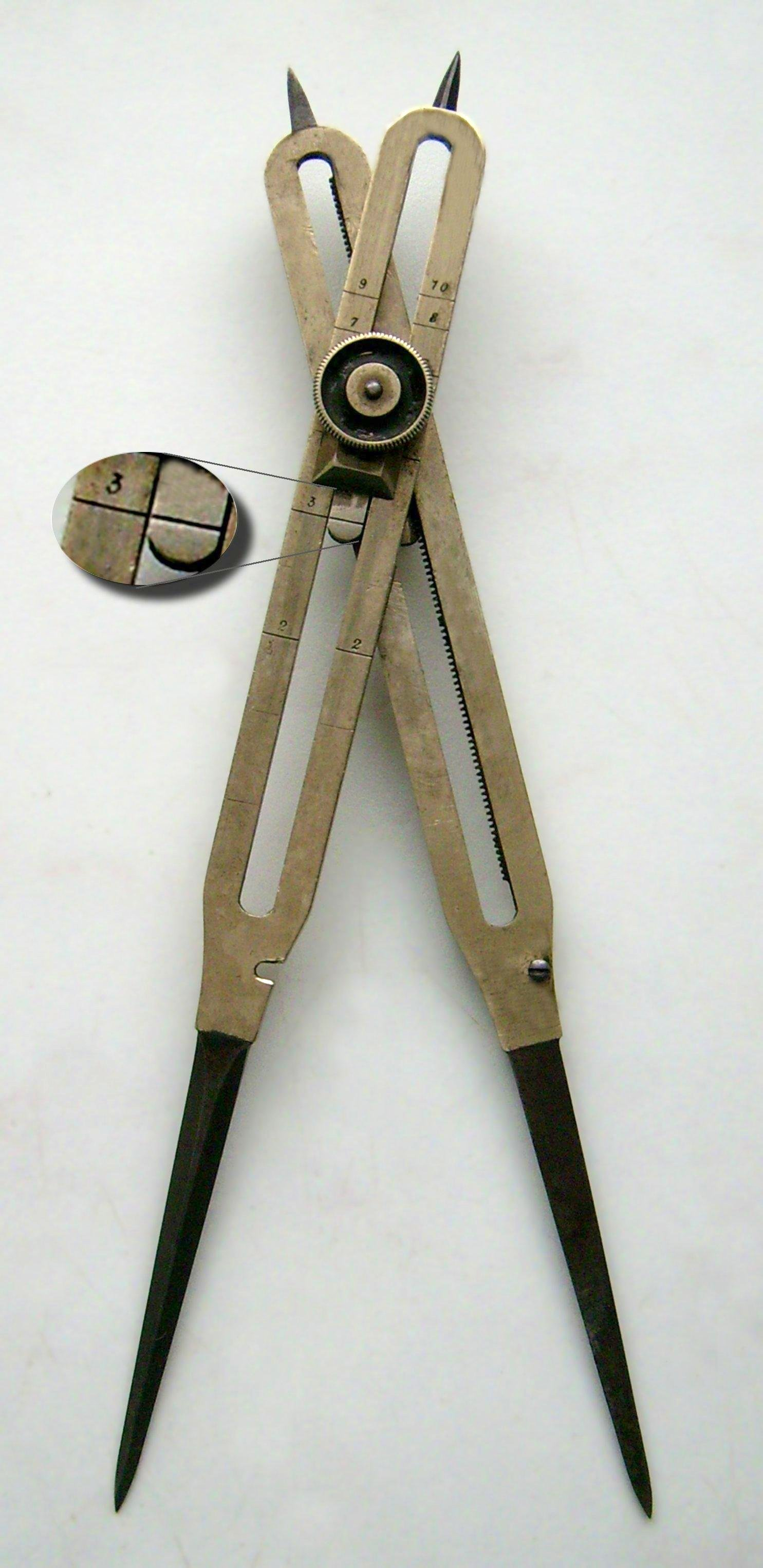 Proportional divider